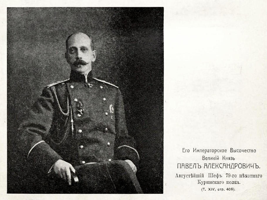 Paul Alexandrovich of Russia